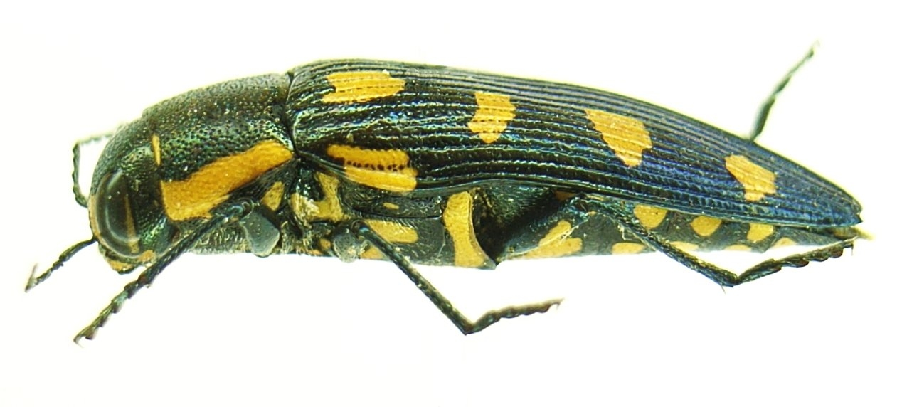 Side of Buprestis octopunctata